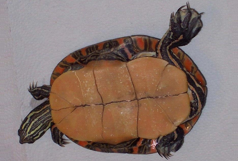 Southern painted turtle underside image, taken in USGS San Diego Laboratory (for use in a gallery with common aspect ratios)